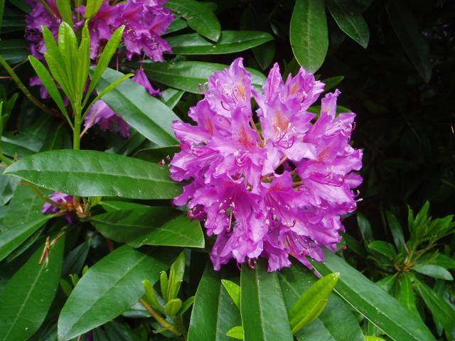 Rhododendron in a garden.